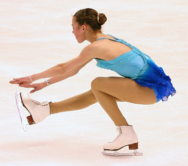 Kimmie Meissner performs a sit spin at the 2005 World Junior Championships in Kitchener, Ontario, Canada. Photo by Vesperholly